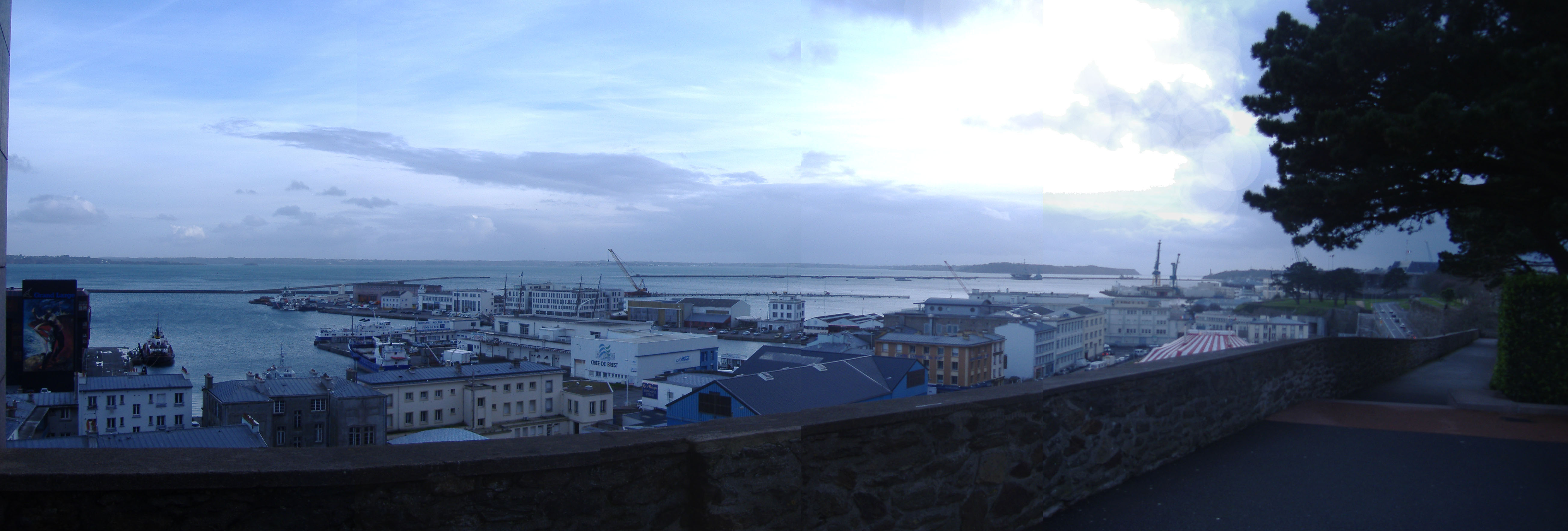 The Court Dajot in Brest, France